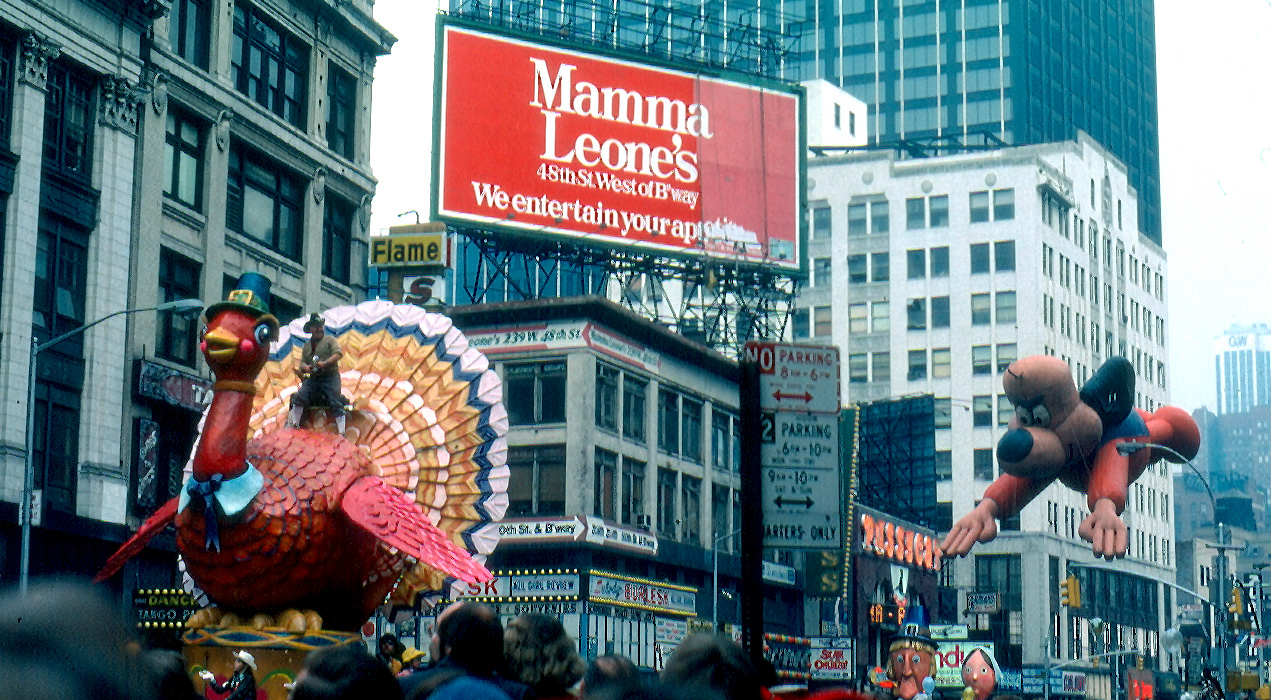 Macy's Thanksgiving Day Parade looking North from the East side of Broadway between 47th & 48th Streets, 1979. Bob Keeshan rides the Tom Turkey float as the Underdog balloon follows.